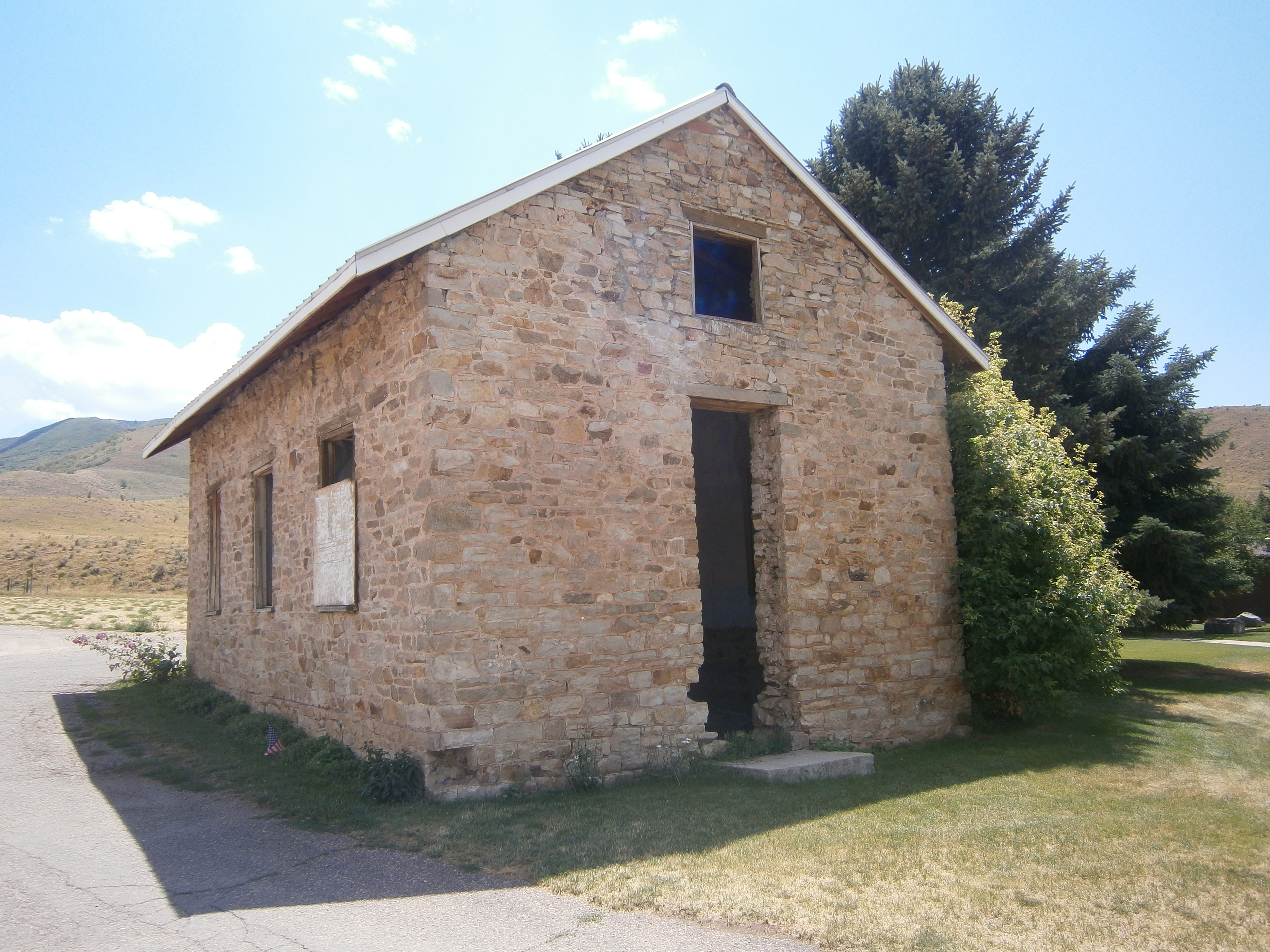 The South Round Valley School, a historic one-room schoolhouse, now on the grounds of Round Valley Golf Course, east of Morgan, Utah, United States.